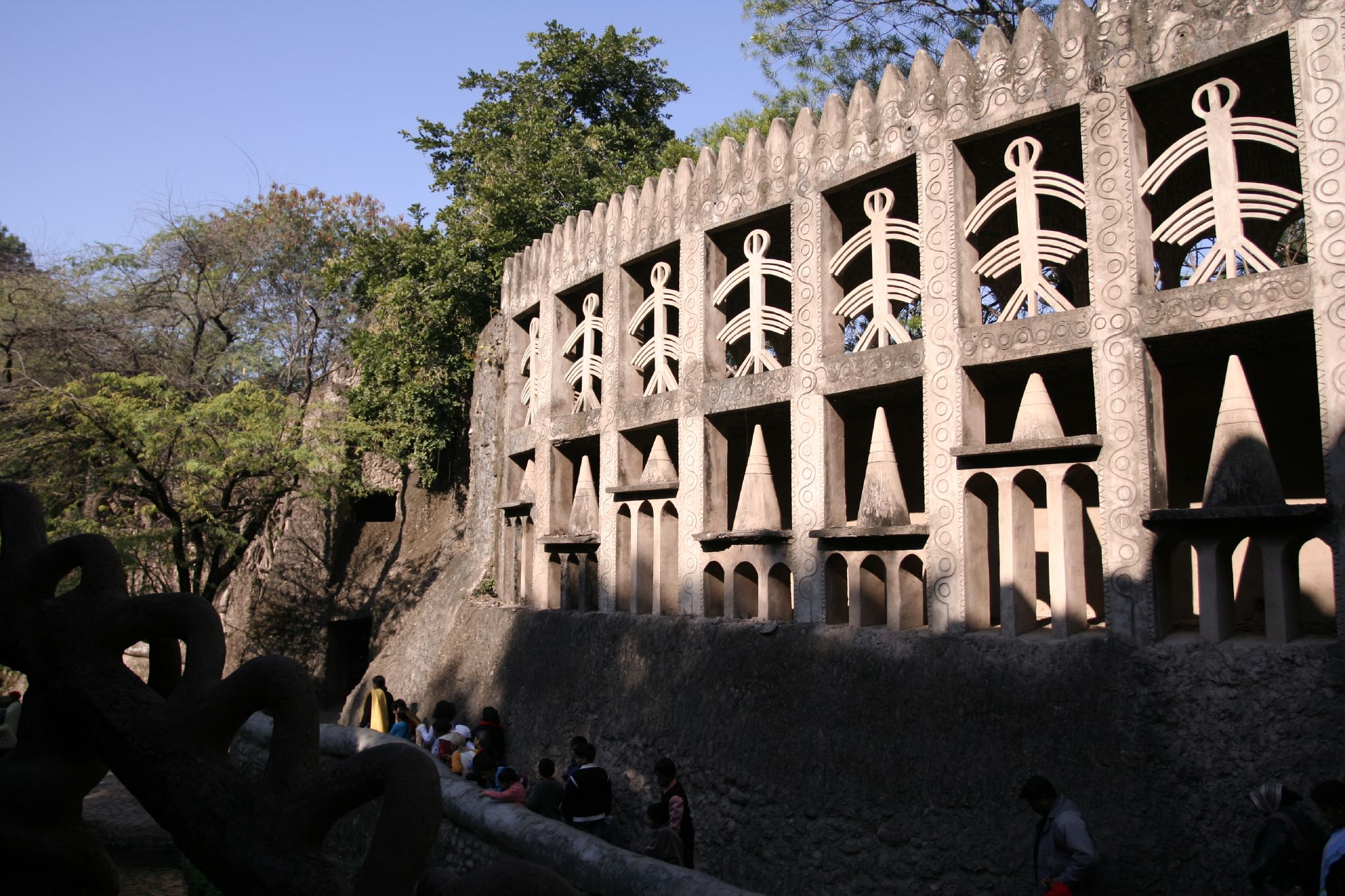 Something about this wall struck me as a more monolithic, less animatronic version of the Disney ride ...